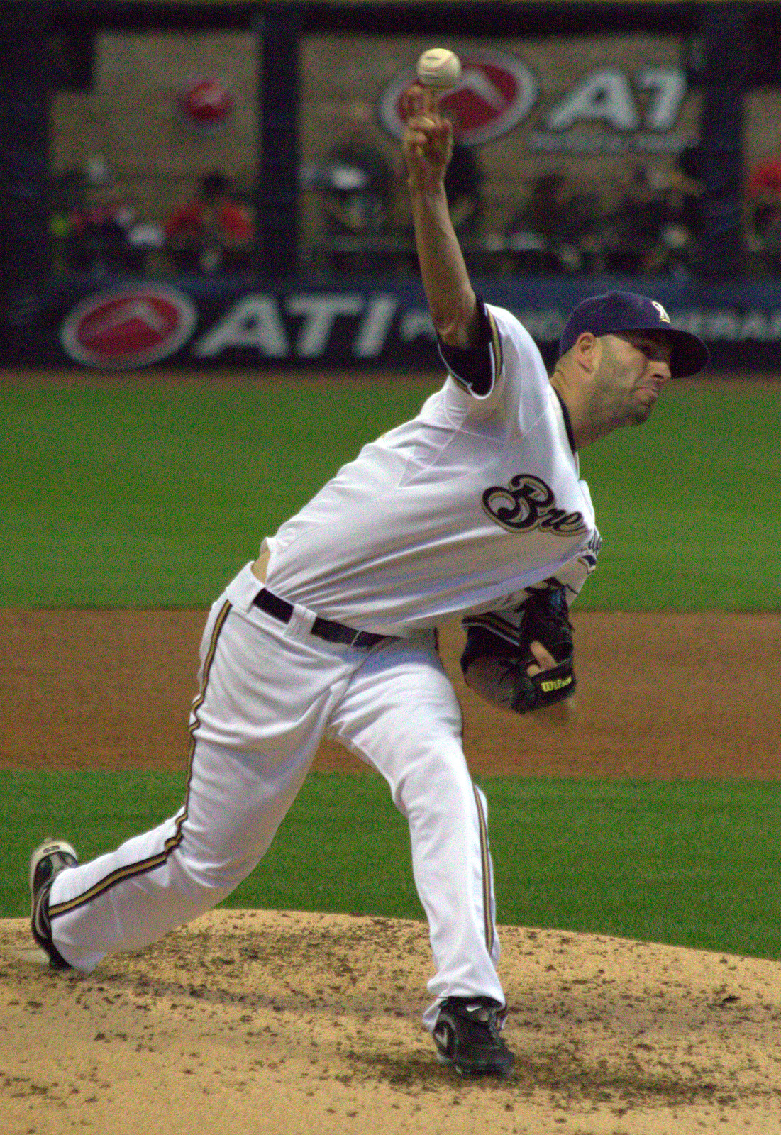 Mike Fiers throws a pitch during a game against the Houston Astros at Miller Park in Milwaukee, Wisconsin, September 30th, 2012.